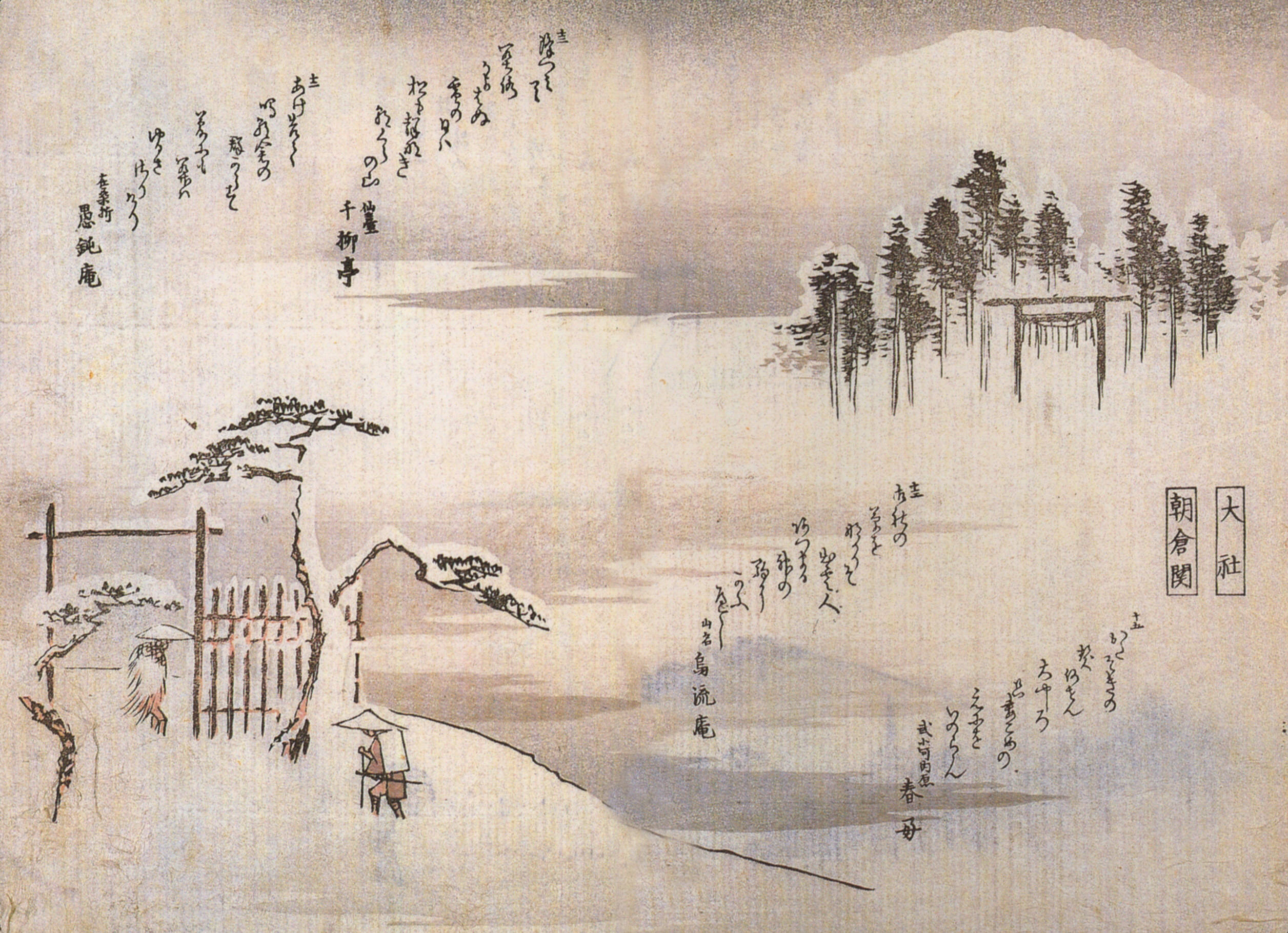 Hiroshige, Two men by a gate in the mountains